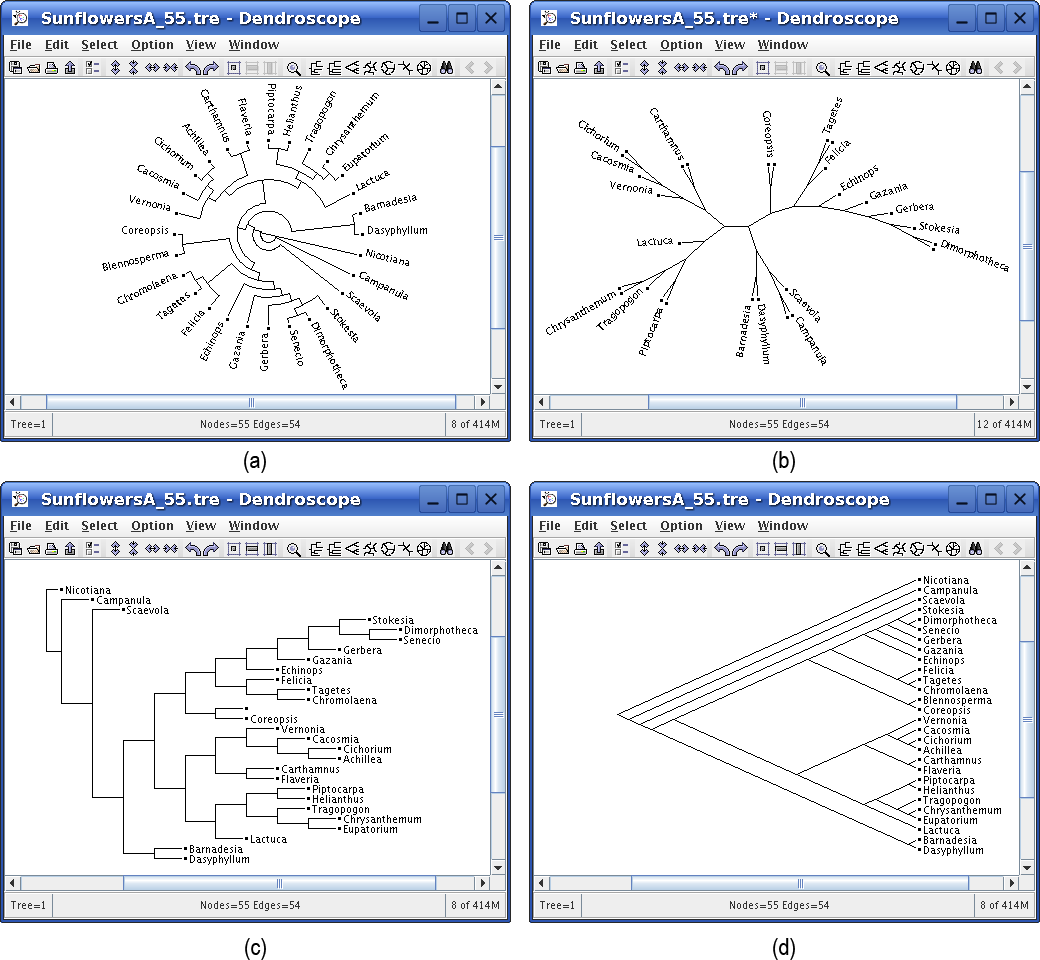 Viewing options for datasets. (a) circular cladogram, (b) radial phylogram, (c) rectangular phylogram, and (d) slanted cladogram.